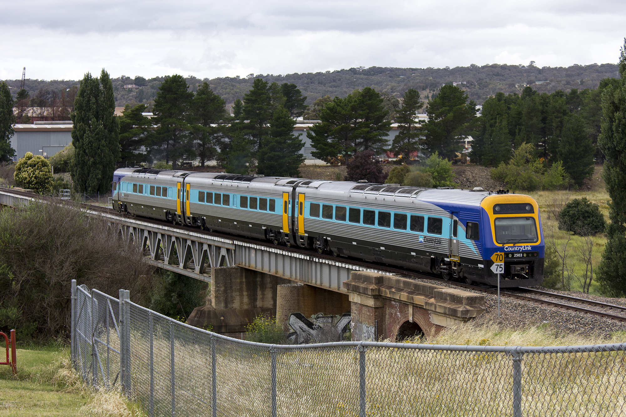 CountryLink Xplorer crossing the Queanbeyan River Railway Bridge, viewed from Oaks Estate, Australian Capital Territory.